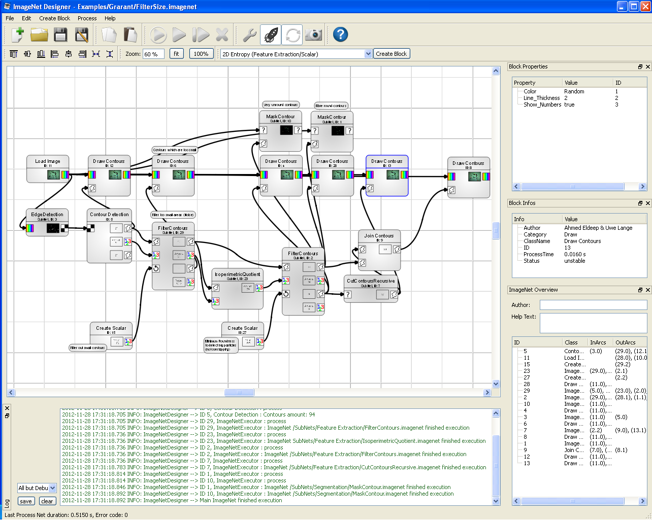 GUI to edit an ImageNet